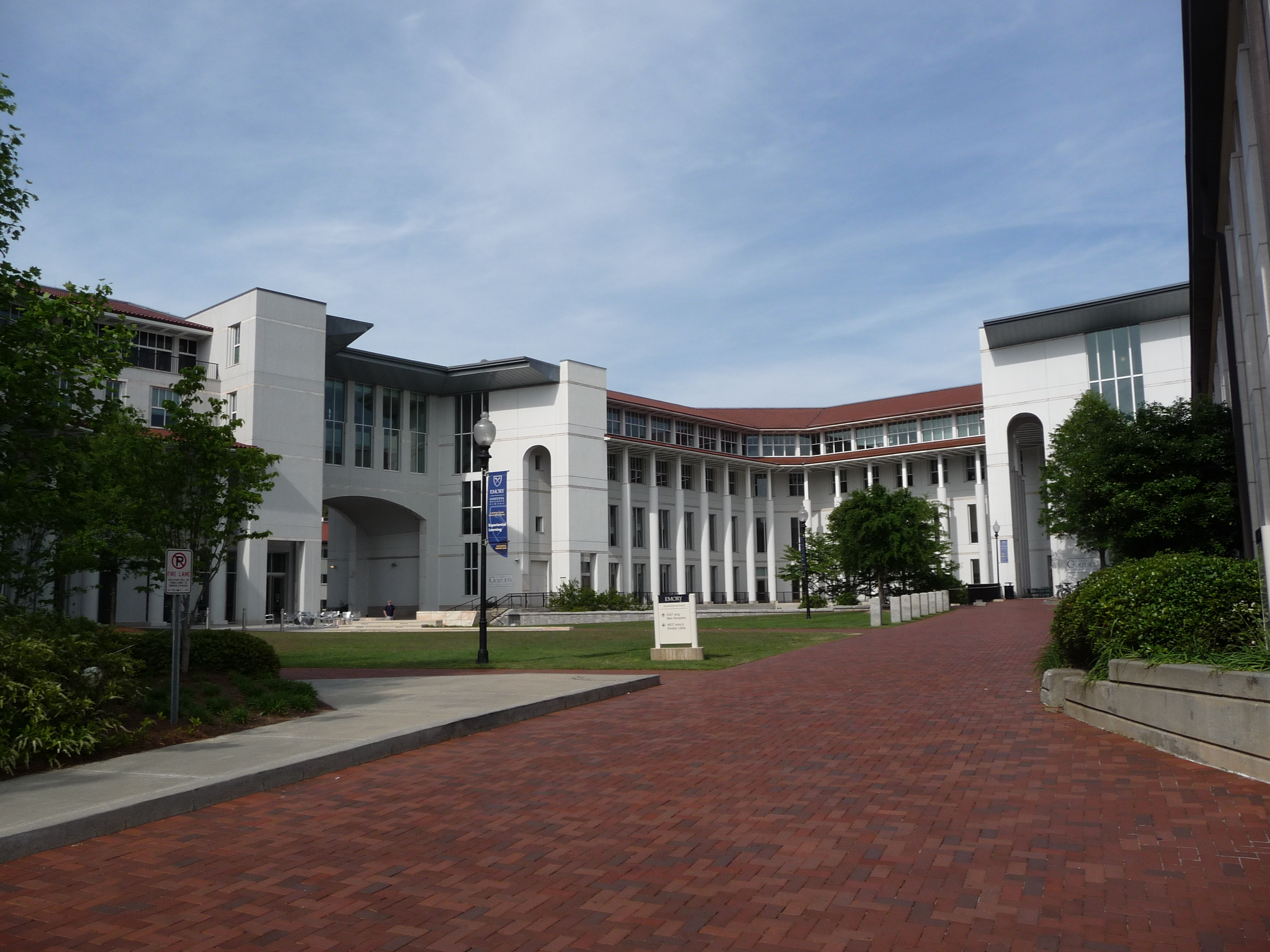 Goizueta Business School - rear